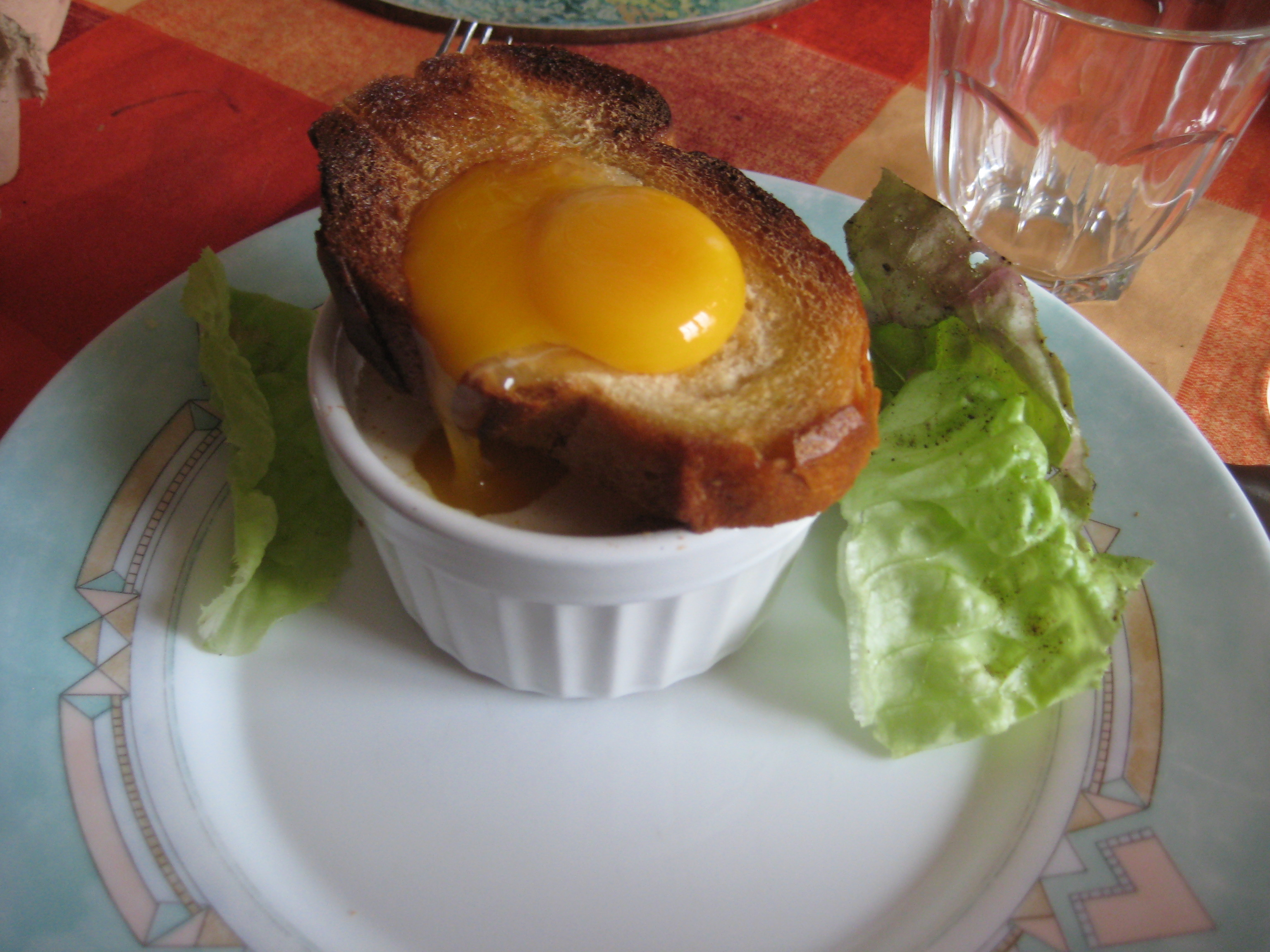 a dish including eggs (see French article in Wikipedia-fr)